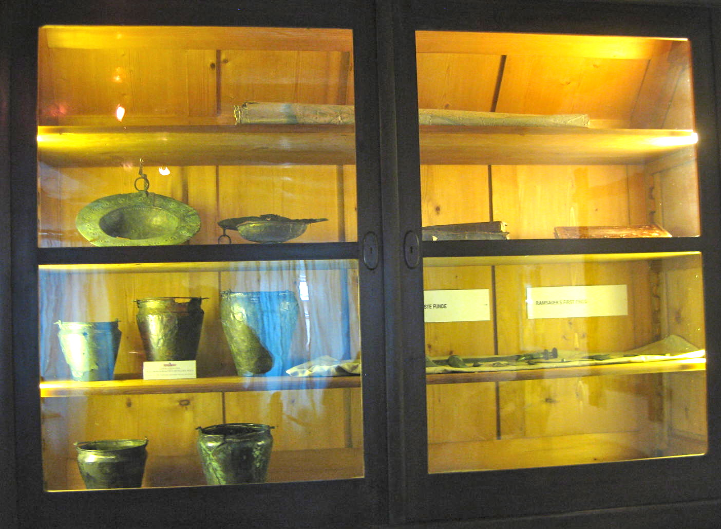 An old display case from the former Museum, used to display Hallstatt gravegoods.